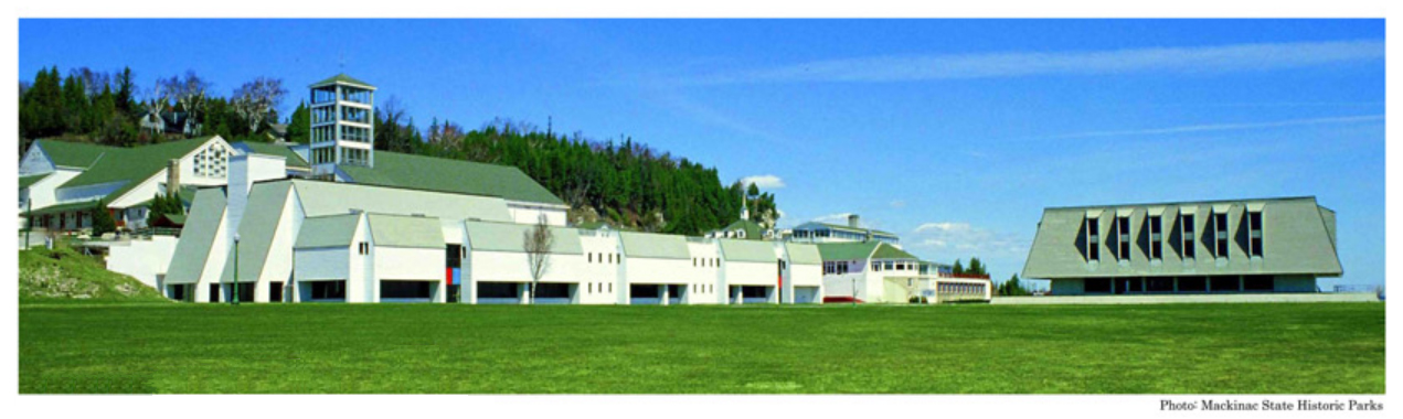 On Mission Point, Mackinac Island, MI the Clark Center for Arts and Sciences (left) and Peter Howard Memorial Library (right) were constructed for use by Mackinac College. Both buildings were financed in whole or in part by Mr. and Mrs. W. Van Alan Clark (hon. Chairman of Avon Products, Inc.). By 2014 the Clark Center (completed in 1968) was being used for groups, meetings & conventions. The Library (completed in 1966) was torn down in approx. 1990. Photo is the property of the Mackinac Island State Historic Parks. (